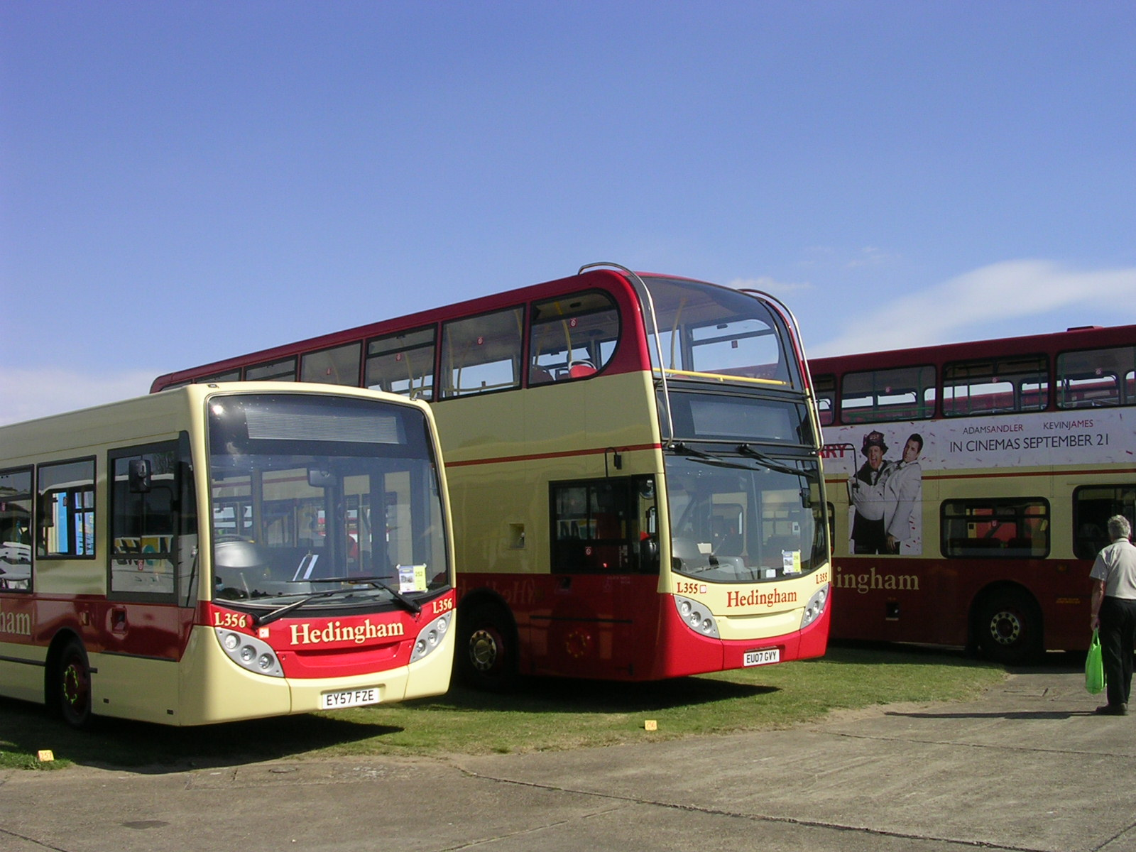 Hedingham Omnibuses' Alexander Dennis Enviro200 Dart & Alexander Dennis Enviro400 at Showbus 2007.